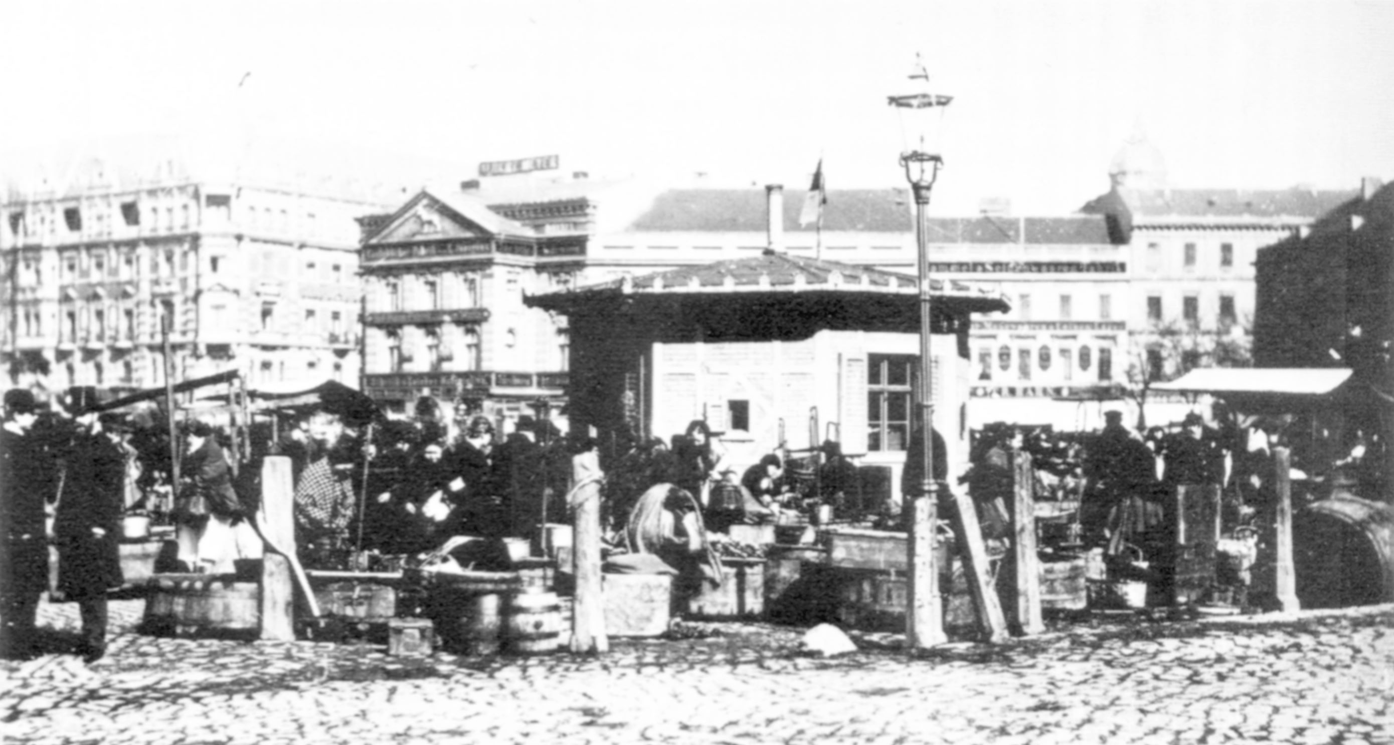 Berlin - weekly market Alexanderplatz in 1887